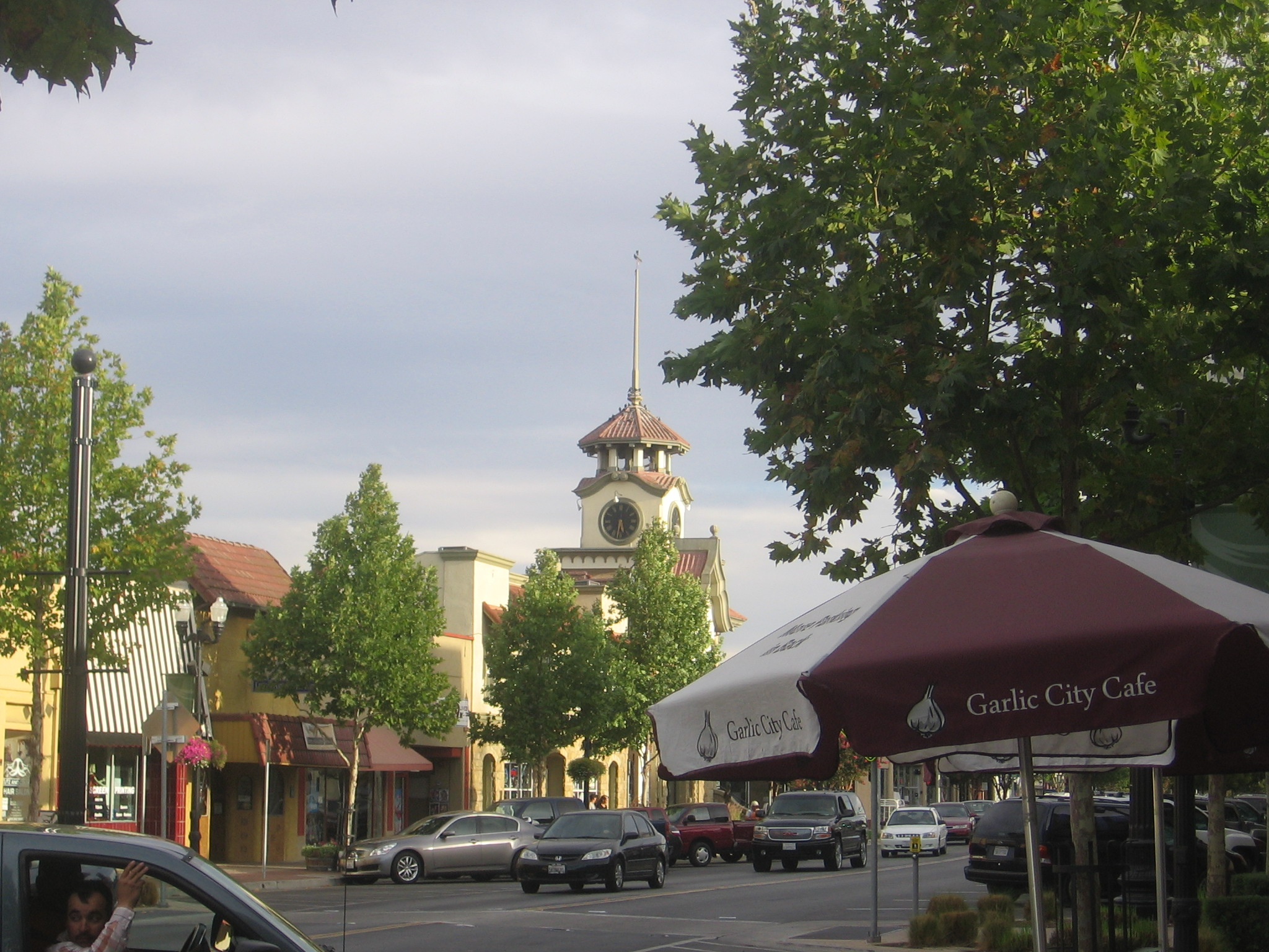 The original Gilroy City Hall. built in 1905. 7400 Monterey Street. Gilroy, California, United States. It now serves as a restaurant.